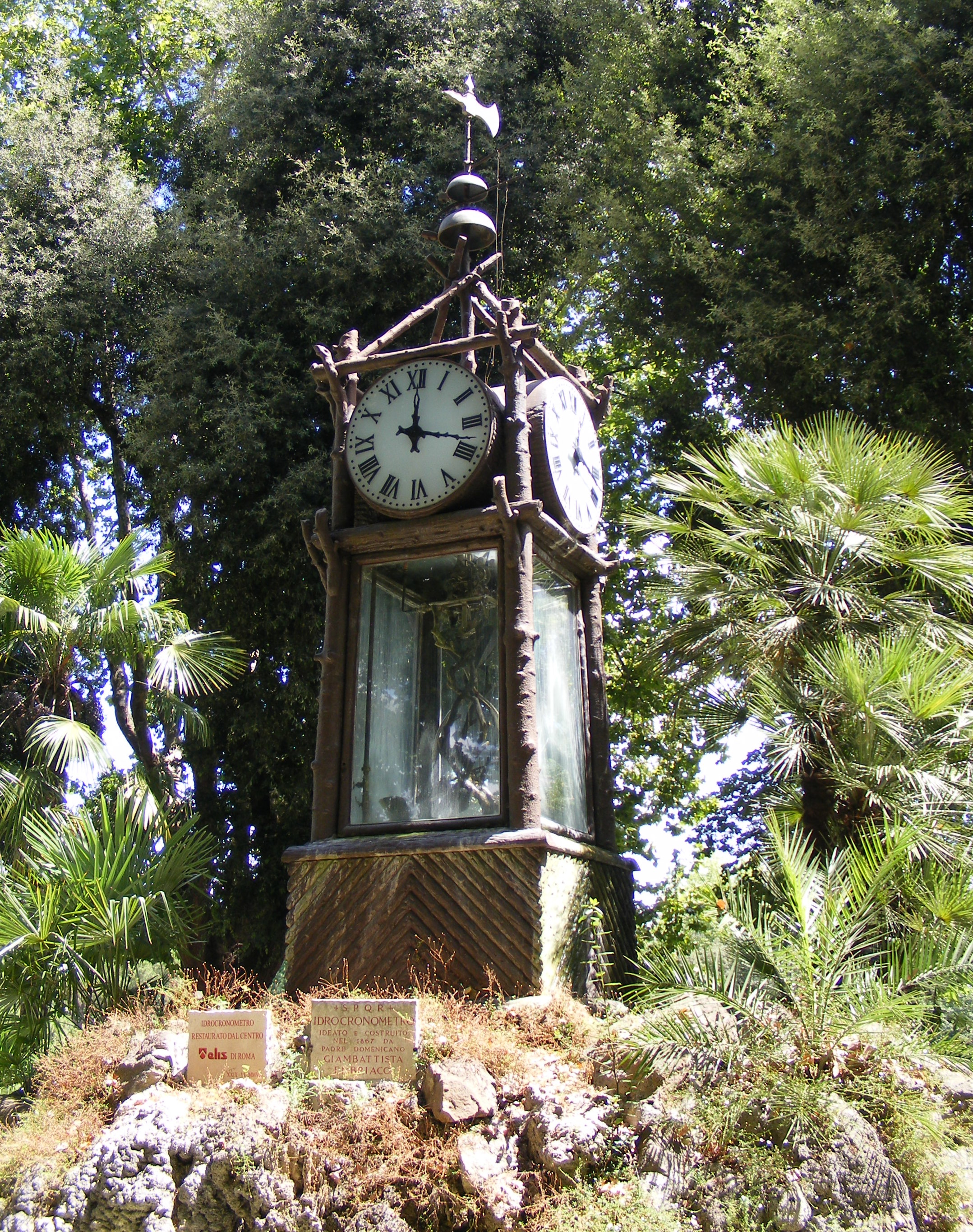 Hydrochronometer by Embriaco (total view with signs) at the Pincio hill